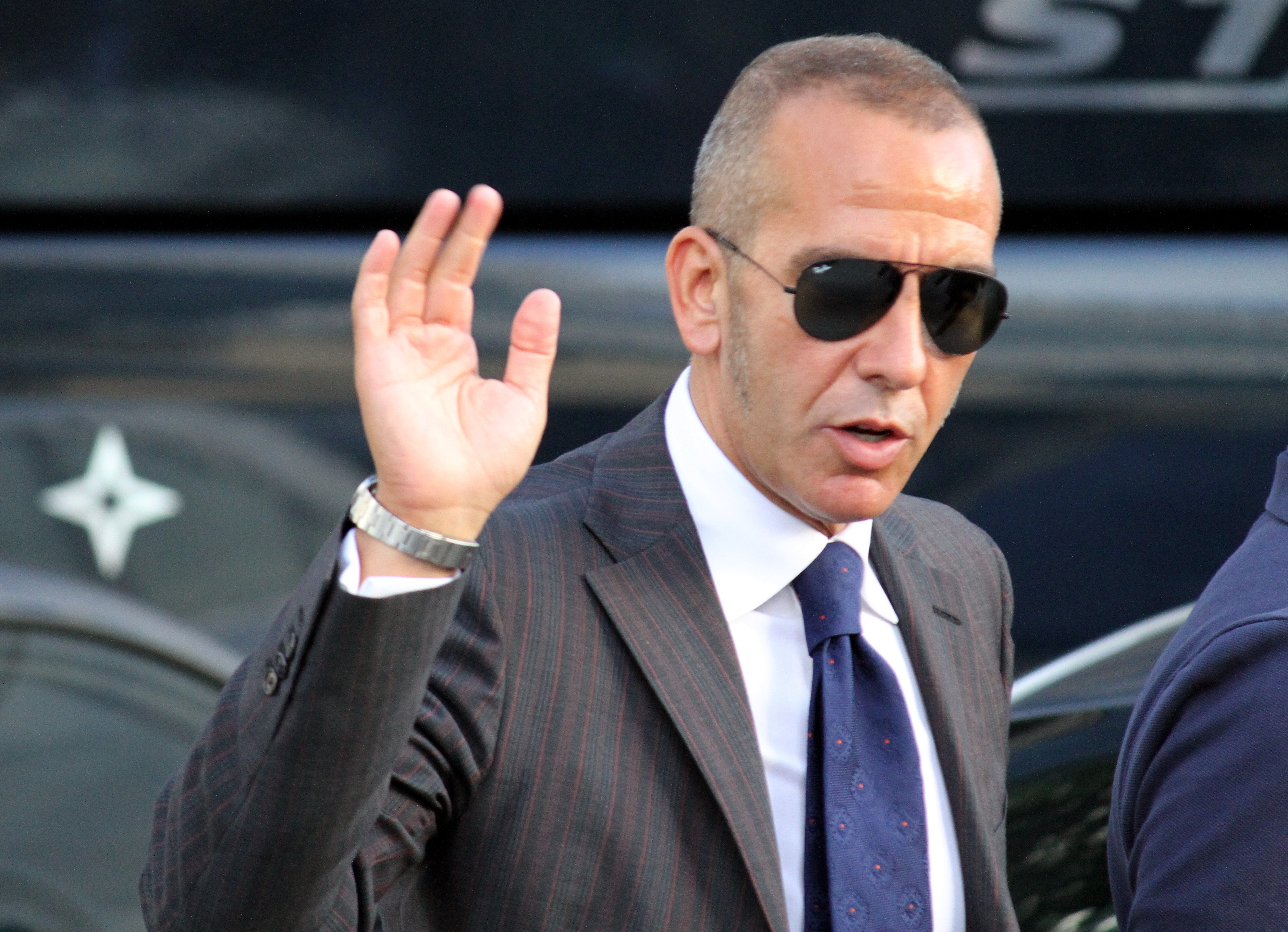 Paolo Di Canio Upton Park 11 September 2010